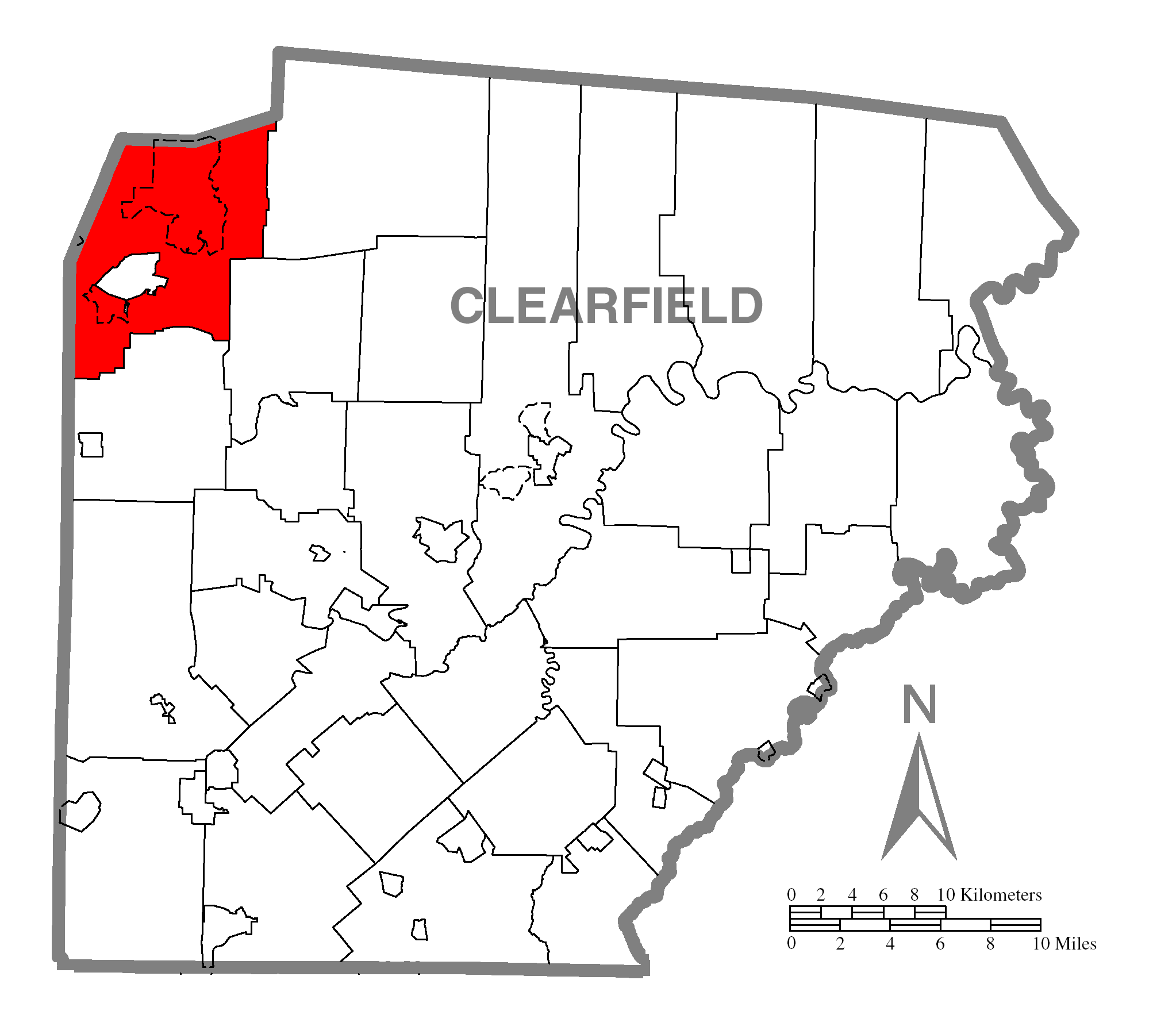 A map of Clearfield County showing Sandy Township, Pennsylvania (alternate) highlighted on the map.